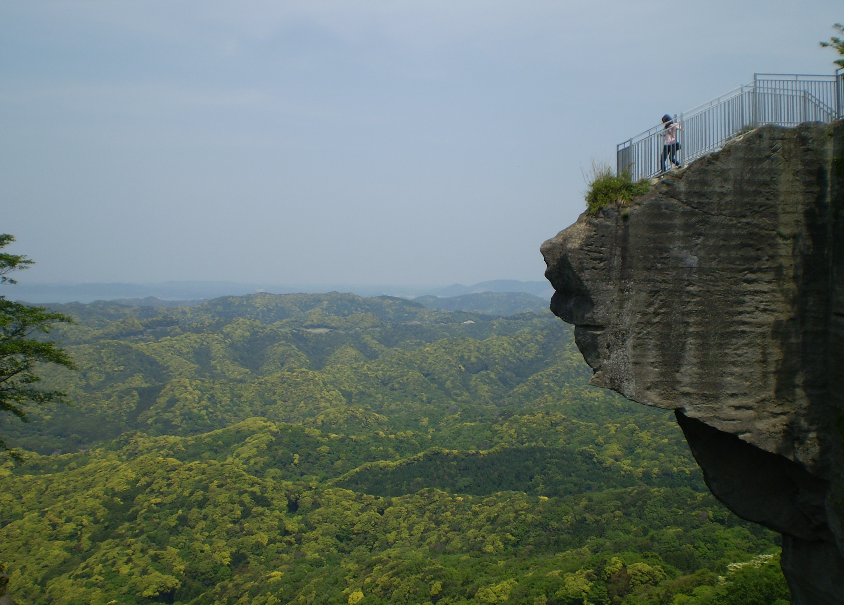 This overhang allows visitors to "peer into hell" as part of the Rurikō Observatory on Nokogiri Mountain in Chiba, Japan.